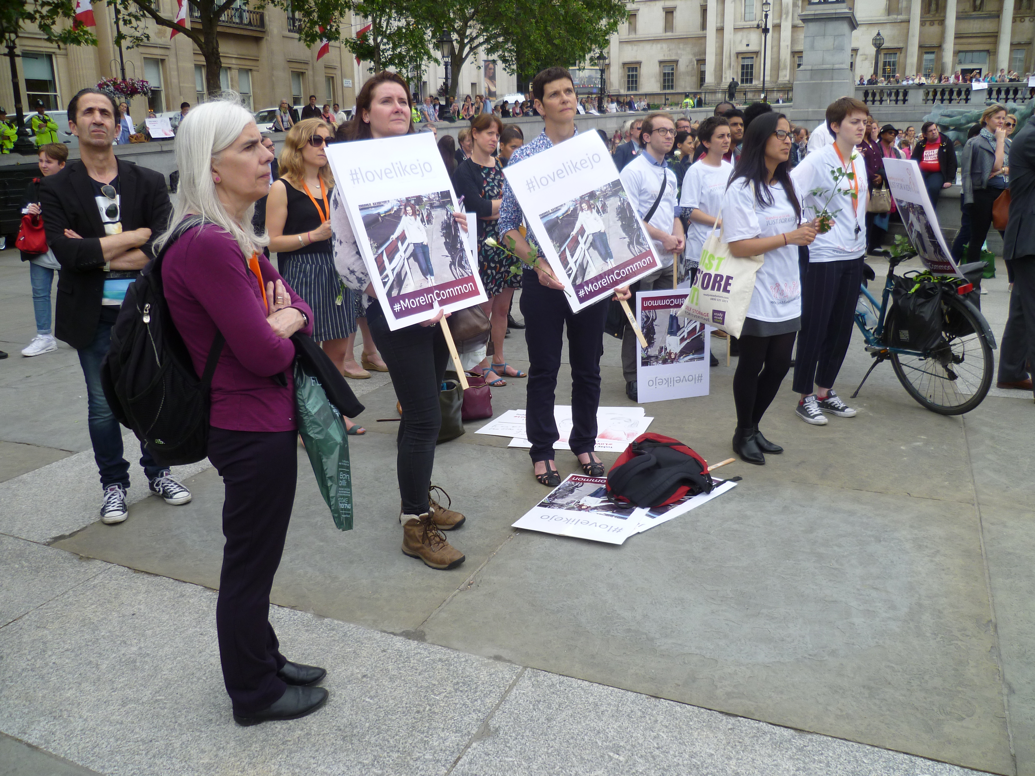 London